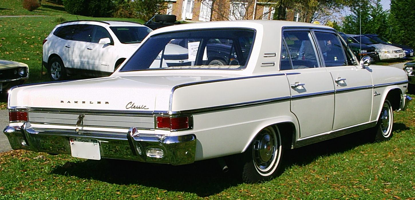 1965 Rambler Classic 770 by American Motors Corporation (AMC). Four-door sedan finished in white.